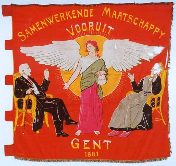 Flag from the workers cooperation 'Vooruit' of Ghent from 1924. The image represents retirement.